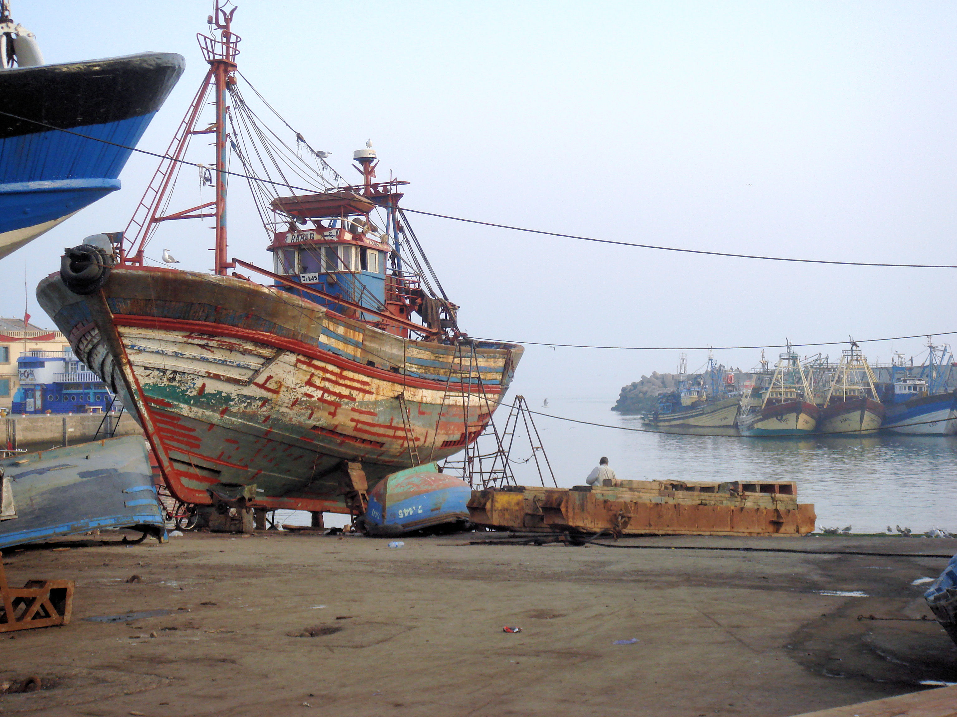 Essaouira_harbour_docks.